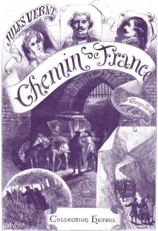 An illustration from Jules Verne's novel "The Flight to France" (or "The Flight to France; or, The Memoirs of a Dragoon. A Tale of the Day of Dumouriez", 1887) drawn by George Roux.